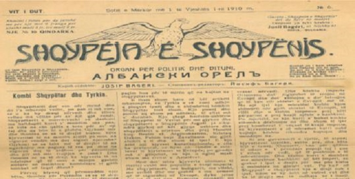 Newspapers, facsimile from 1910